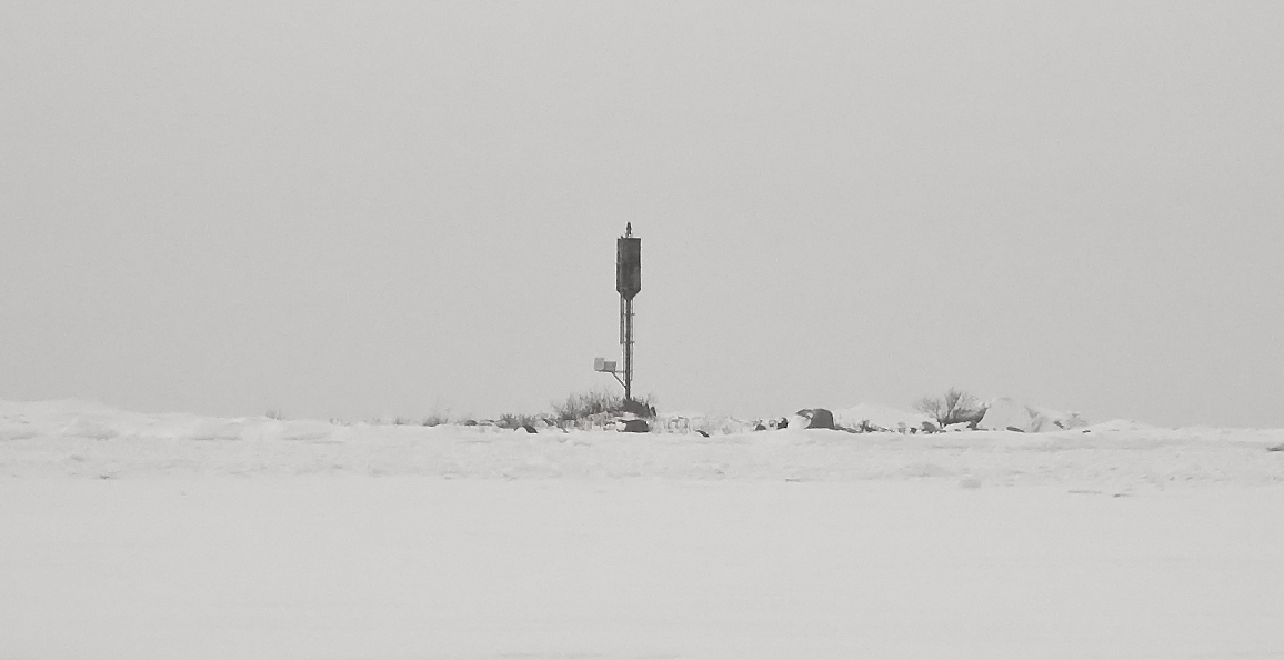 Rautakallio island in Siikajoki municipality, Finland. The tower on the island is a fishing light.